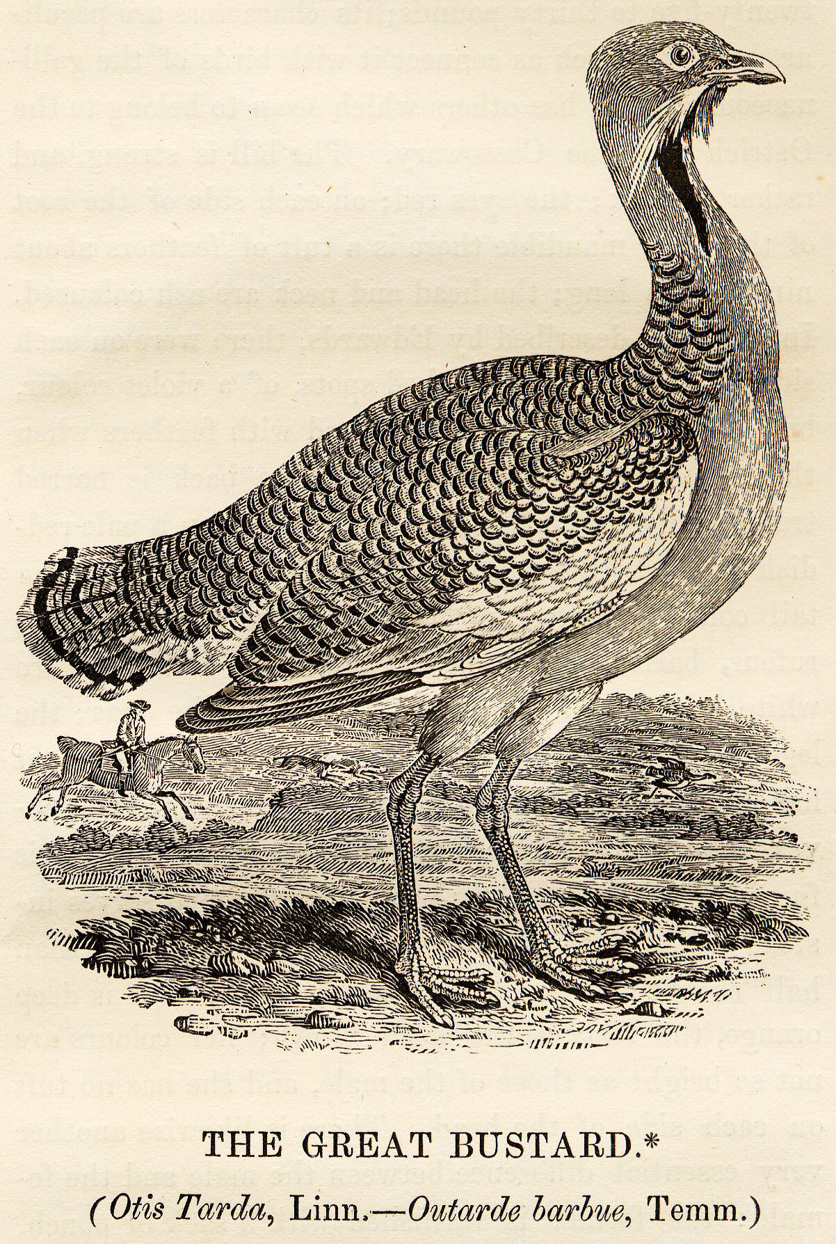 Woodcut by Thomas Bewick in History of British Birds 1797-1804